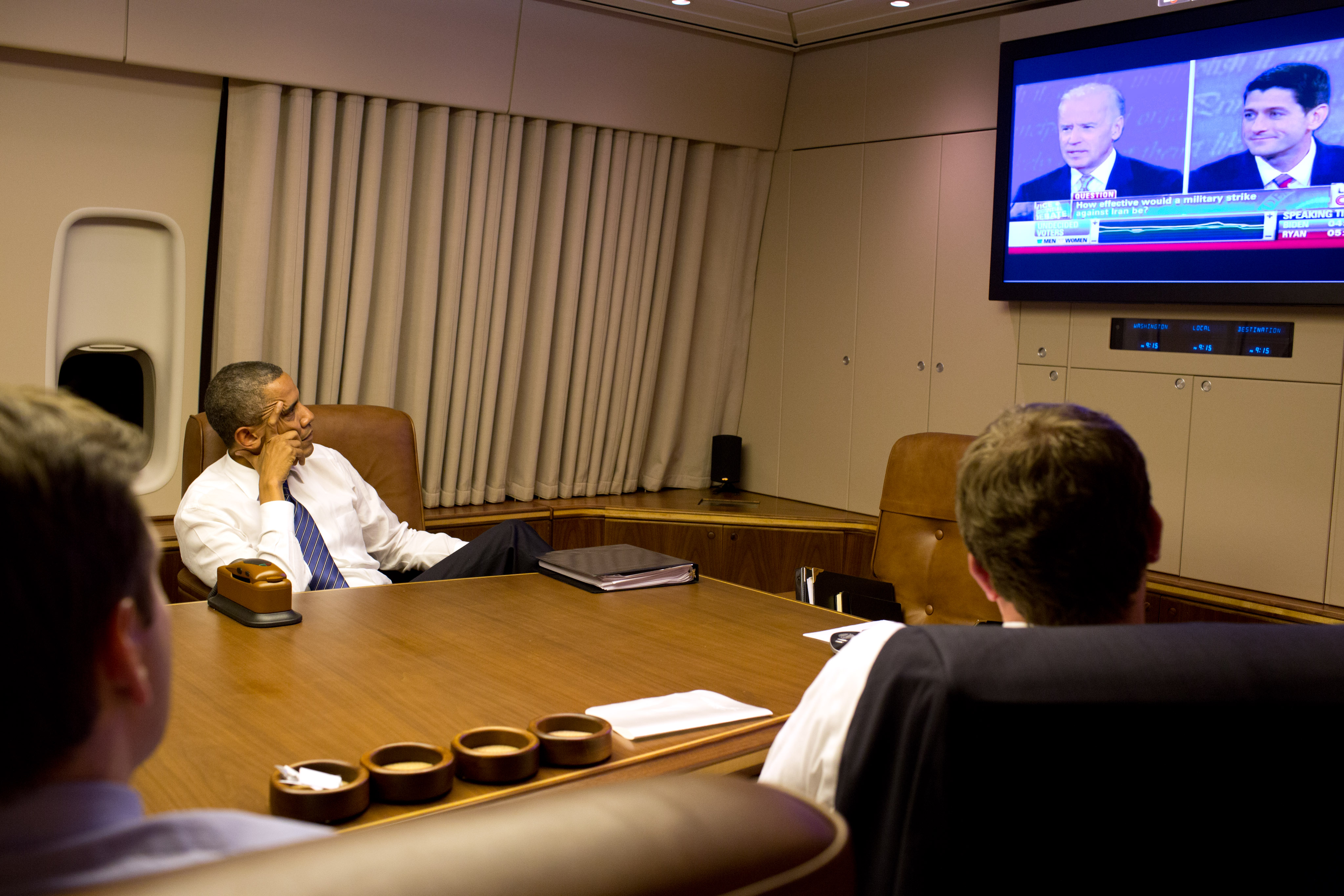 U.S. President Barack Obama, in a conference room aboard Air Force One from Florida to Washington, D.C., watching CNN on October 11, 2012, during the the Vice Presidental debate between Obama's running mate, incumbent Vice President Joe Biden, and Mitt Romney's running mate, U.S. Congressman Paul Ryan. Biden is responding after the question "How effective would a military strike against Iran be?" Original caption: “President Barack Obama watches the Vice Presidental debate aboard Air Force One with staff, en route home from Florida, Oct. 11, 2012.”